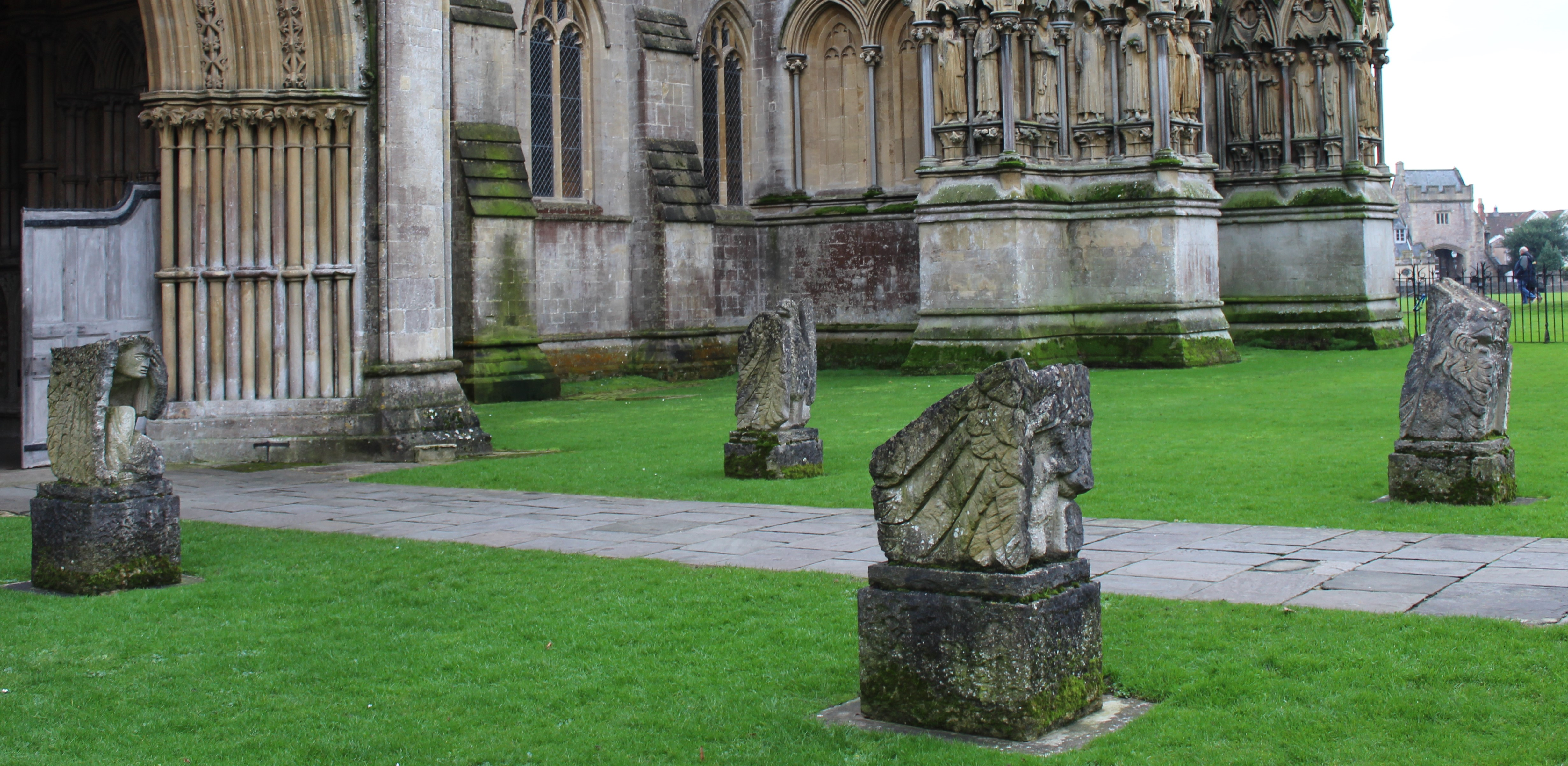 Sculptures representing the four symbols of the evangelists, by Mary Spencer Watson at the north porch of Wells Cathedral, England